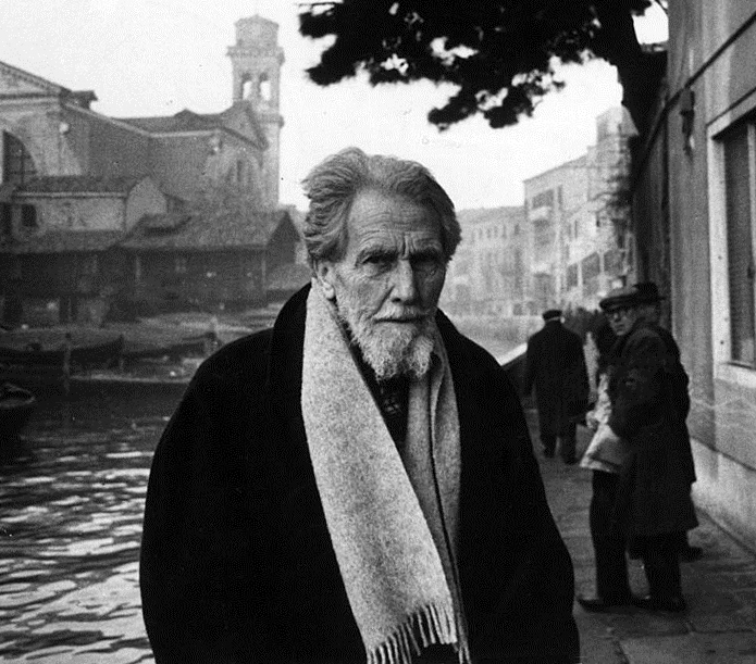 American poet Ezra Pound standing on a pavement nearby a canal. Venice, 1963